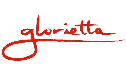 Glorietta's stylized logo from its rebranding in 2007 up to the present